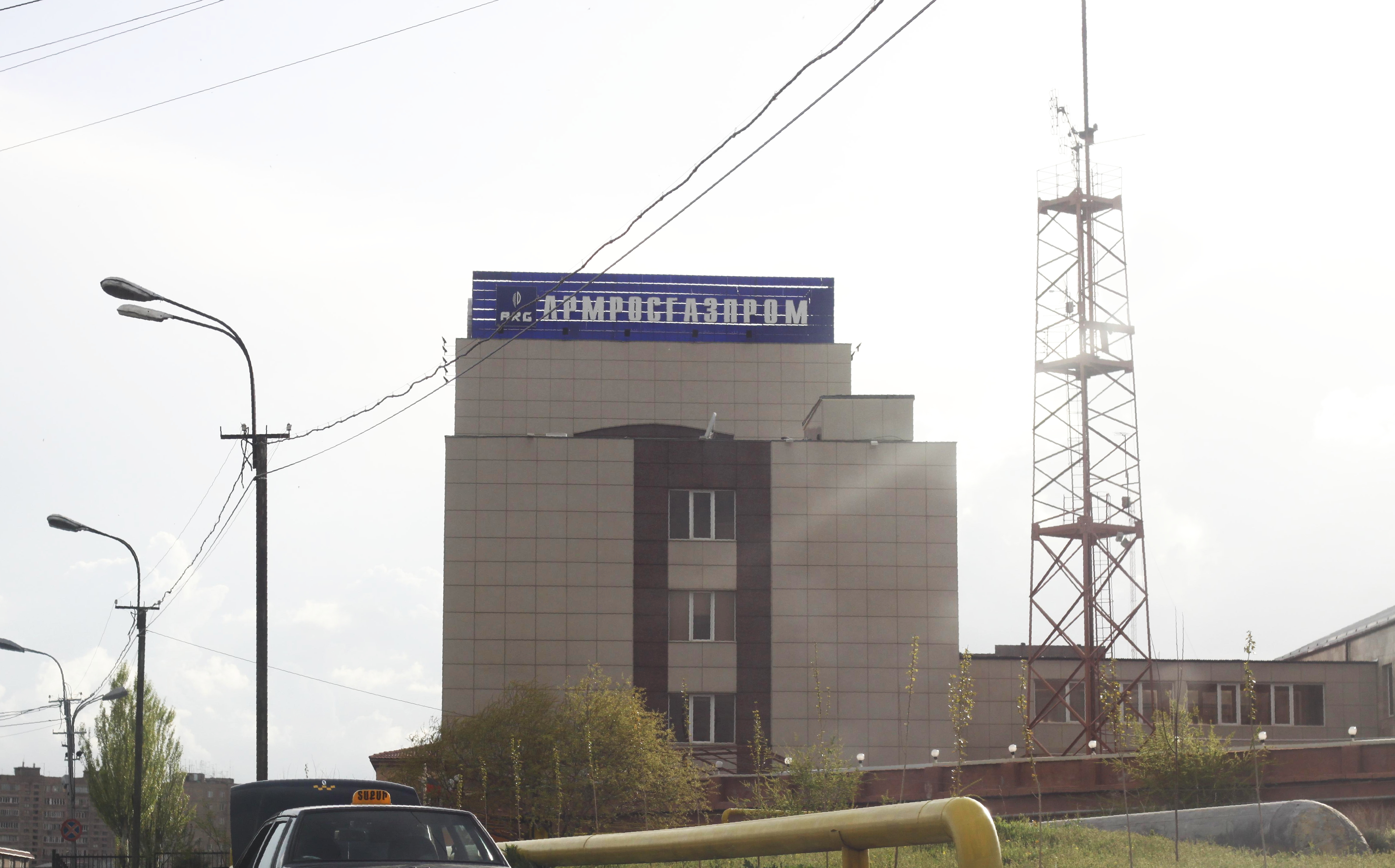 The headquarters of Armrosgazprom (Gazprom Armenia) near the Kanaker district of Yerevan. Armrosgazprom holds a monopoly over natural gas import and distribution in Armenia.